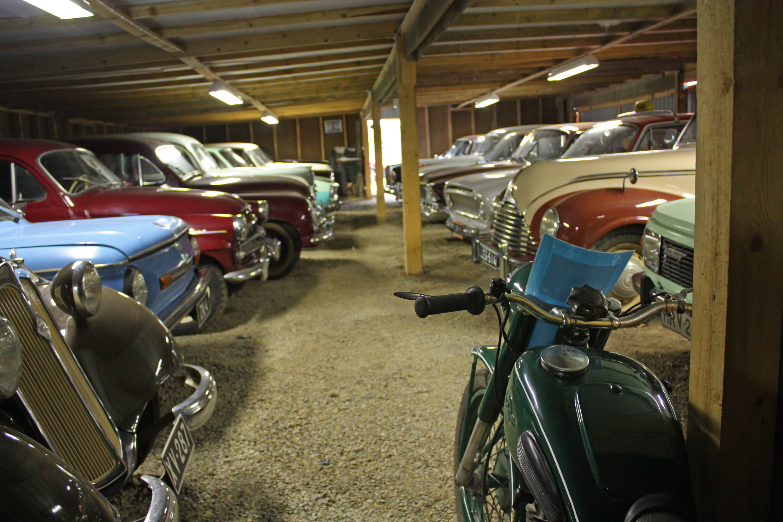 Jakola Car Museum in Pylkönmäki, Central Finland.